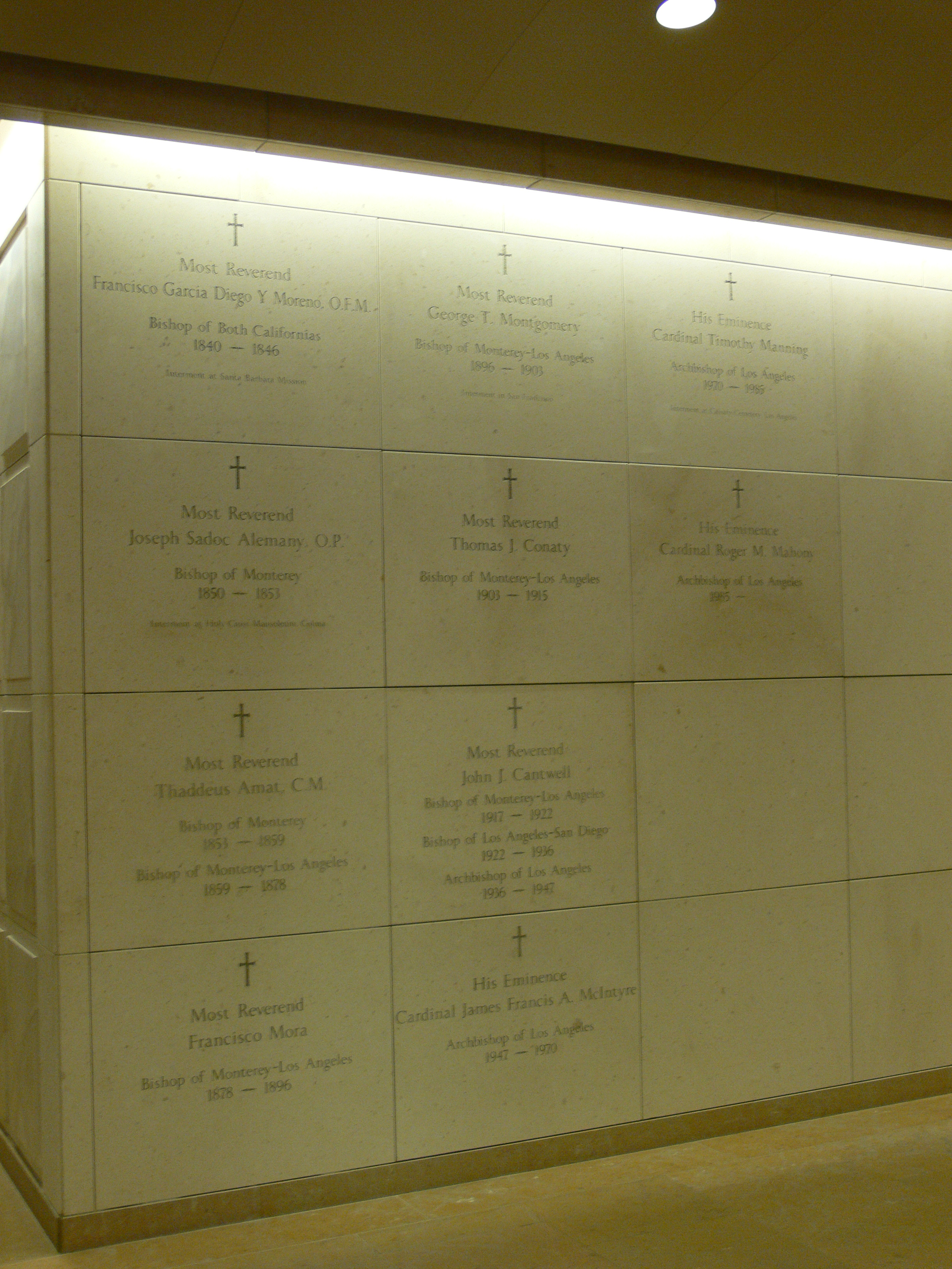 Roman Catholic Cathedral of Our Lady of the Angels, Los Angeles, California Bishop graves